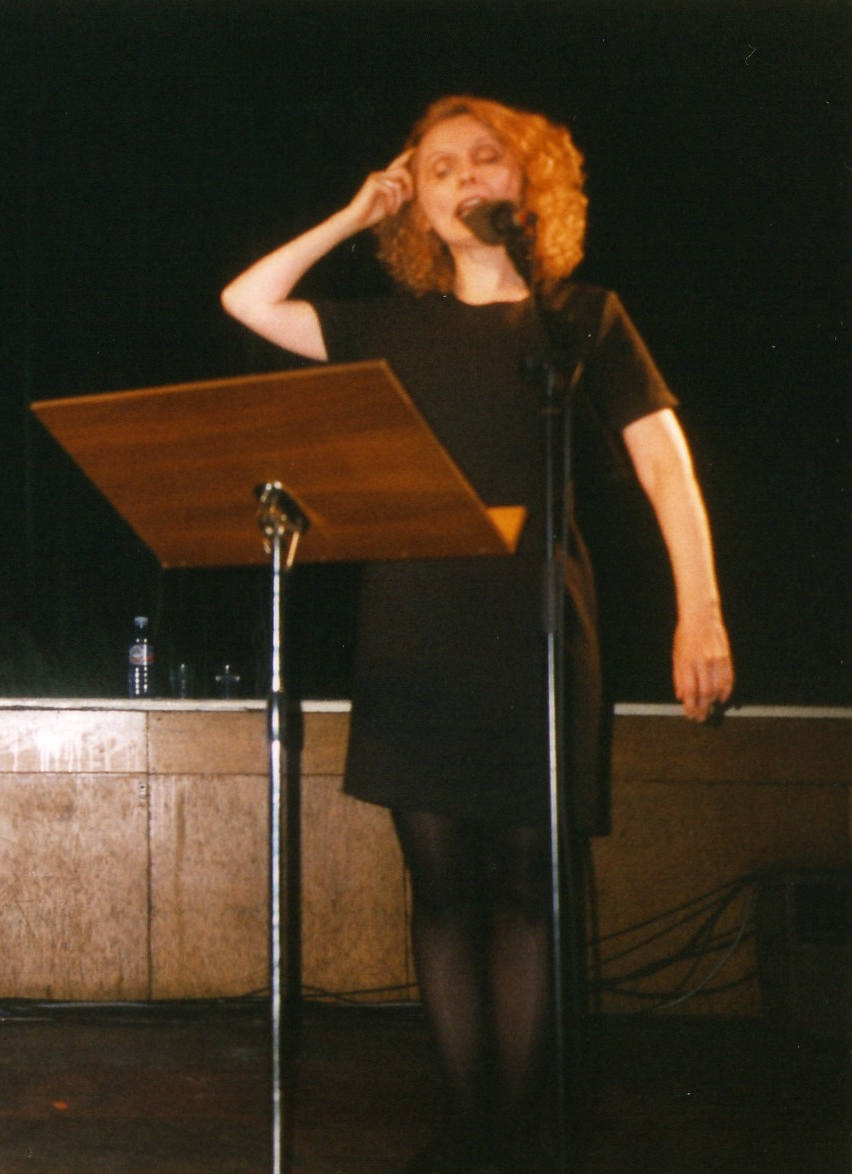 Dagmar Krause performing with Marie Goyette (off camera) at the London Musicians Collective Festival in London in 1997.